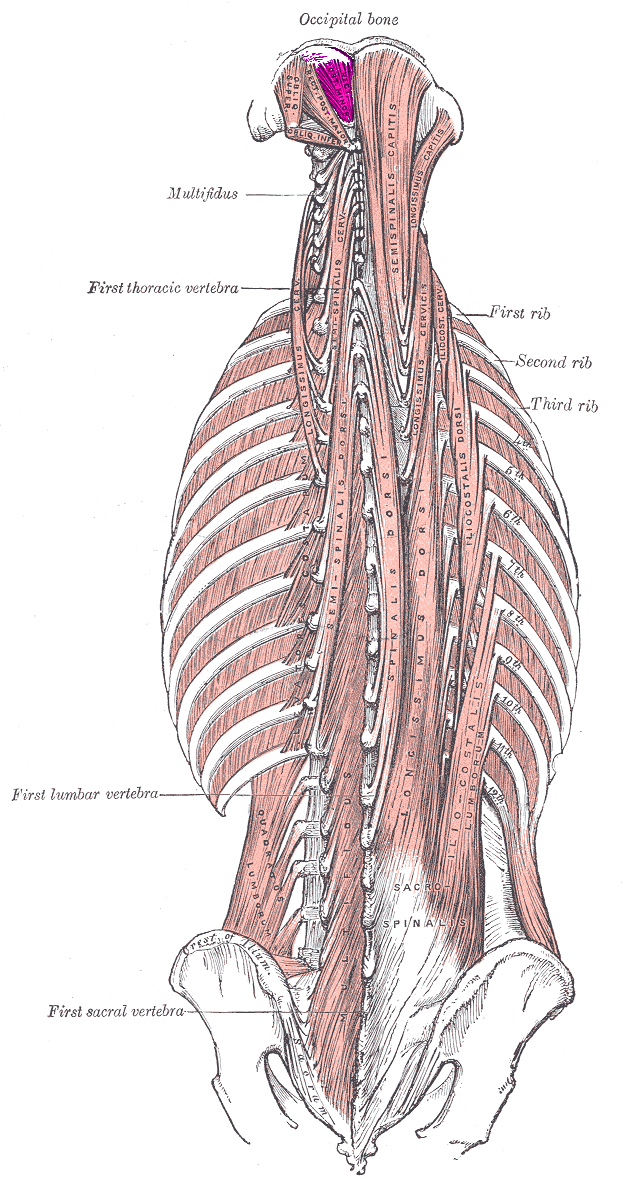 Rectus capitis posterior minor muscle drawing from Grays' Anatomy